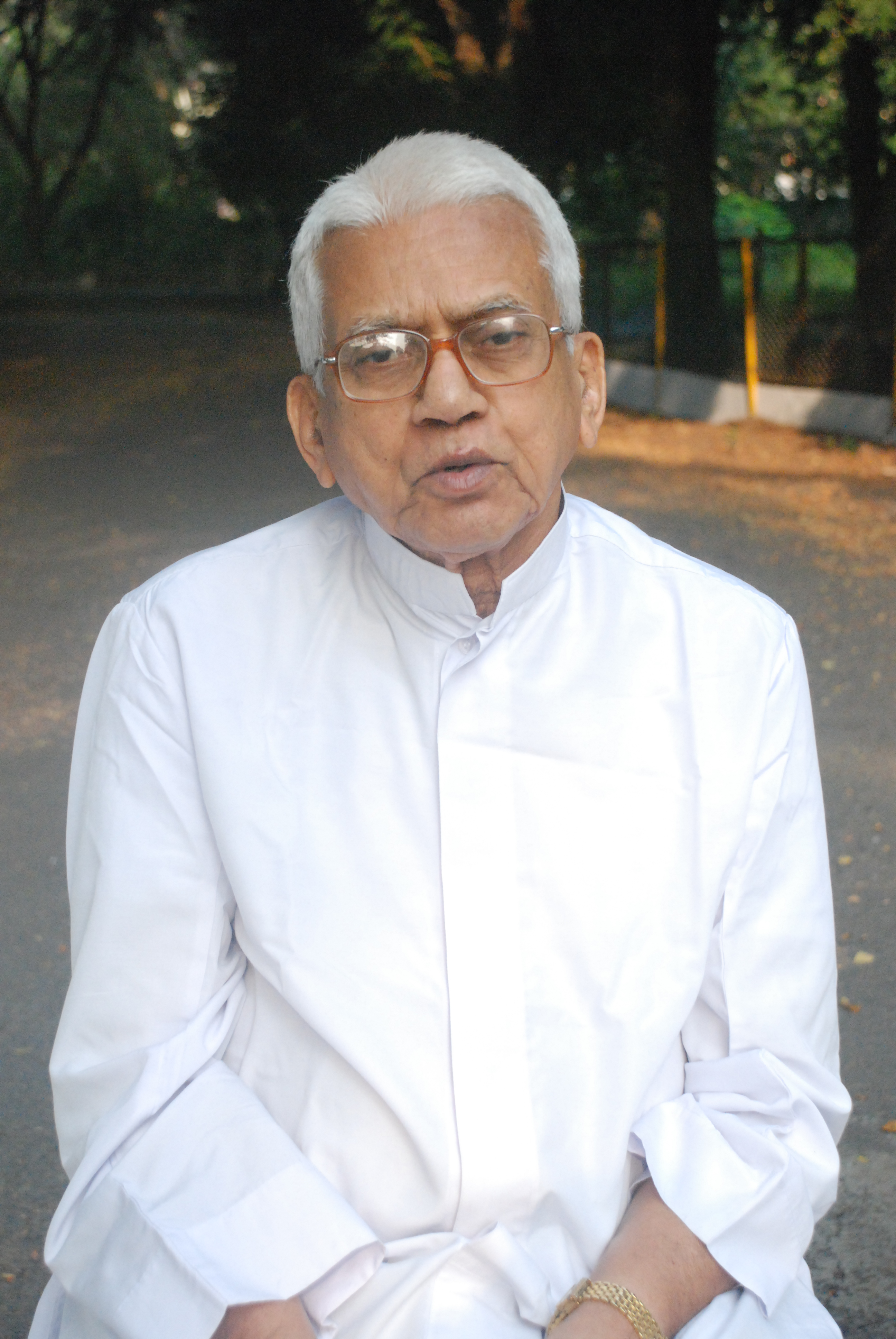 ఫాదర్ పూదోట జోజయ్య యస్.జె